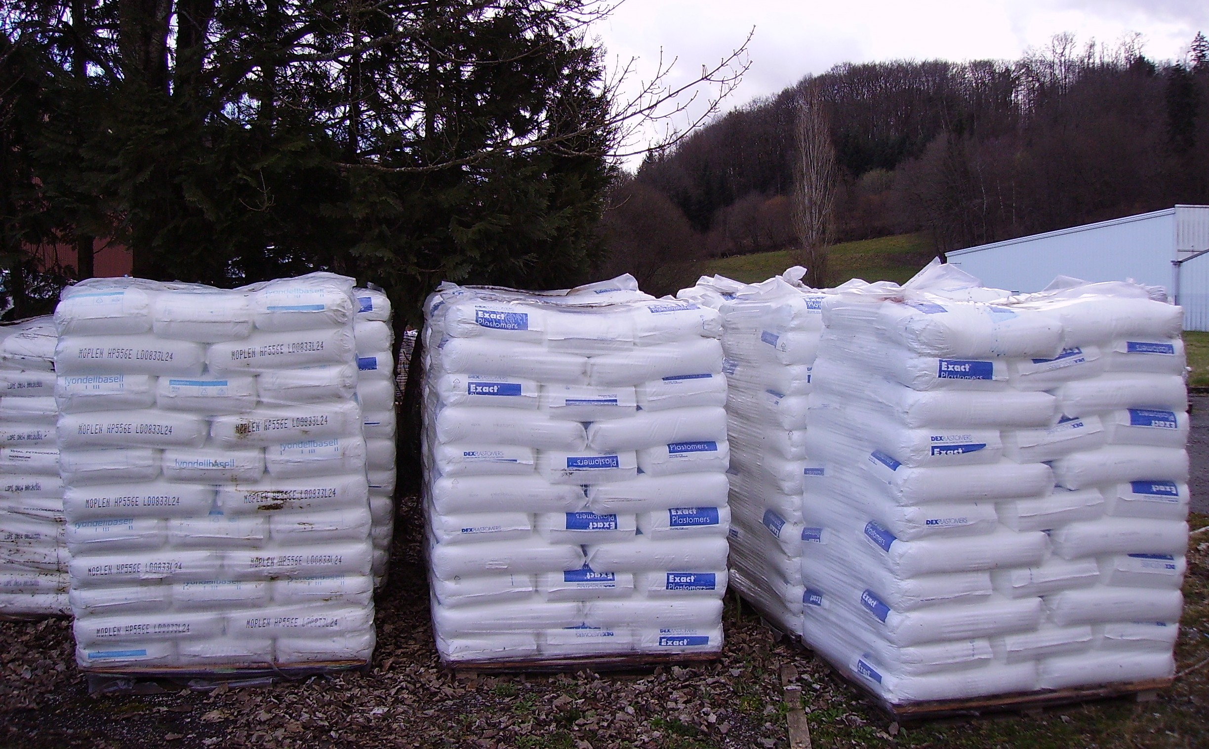 Bags of plastic granules (from left to right): LDPE by Total Petrochemicals; Moplen HP556E (isotactic polypropylene, iPP) by LyondellBasell; Exact 0201 (ethylene based octene plastomer) by Dex Plastomers.